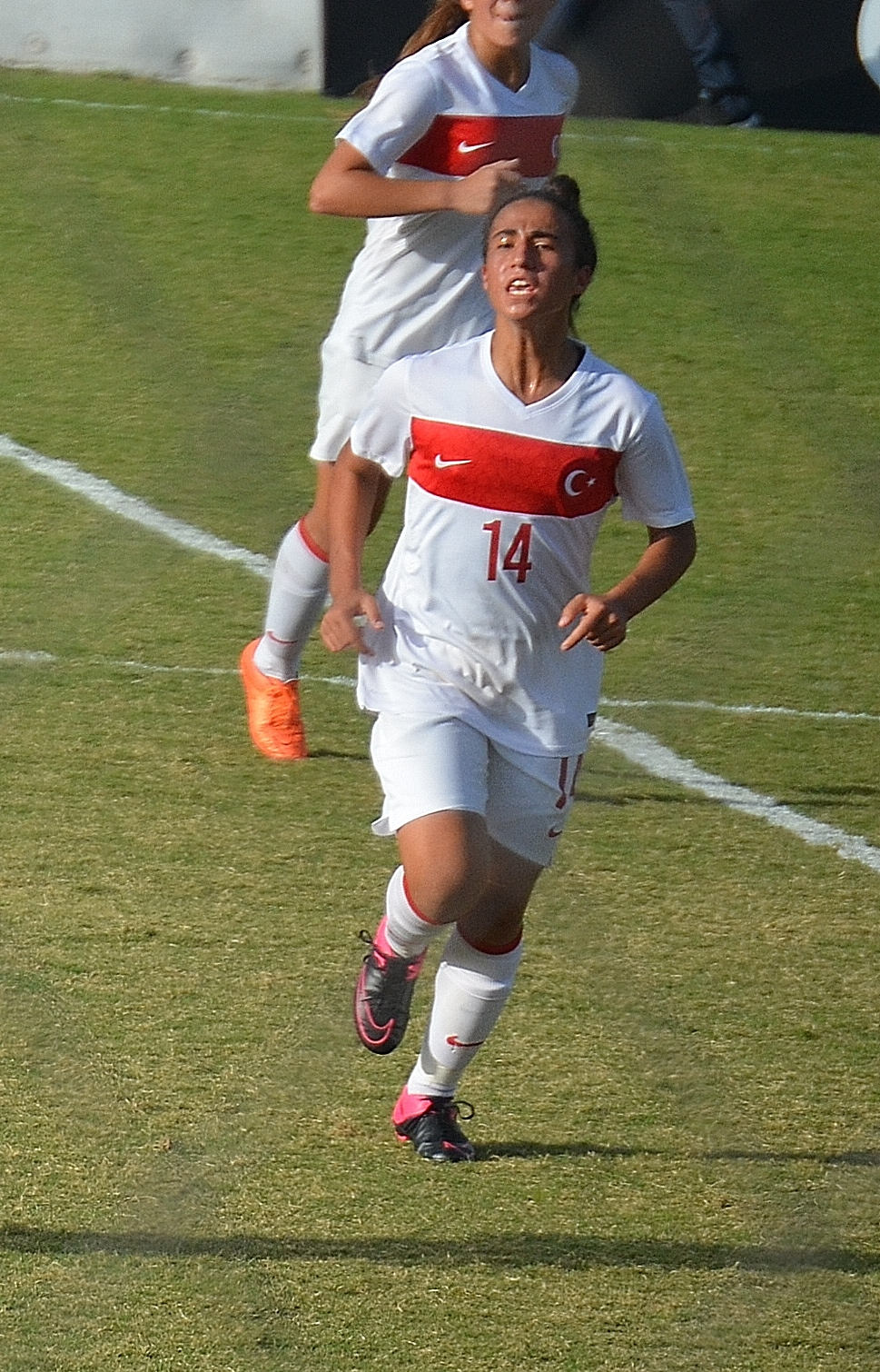 Ceren Akkaya playing for Turkey Women's U17 on October 20, 2015